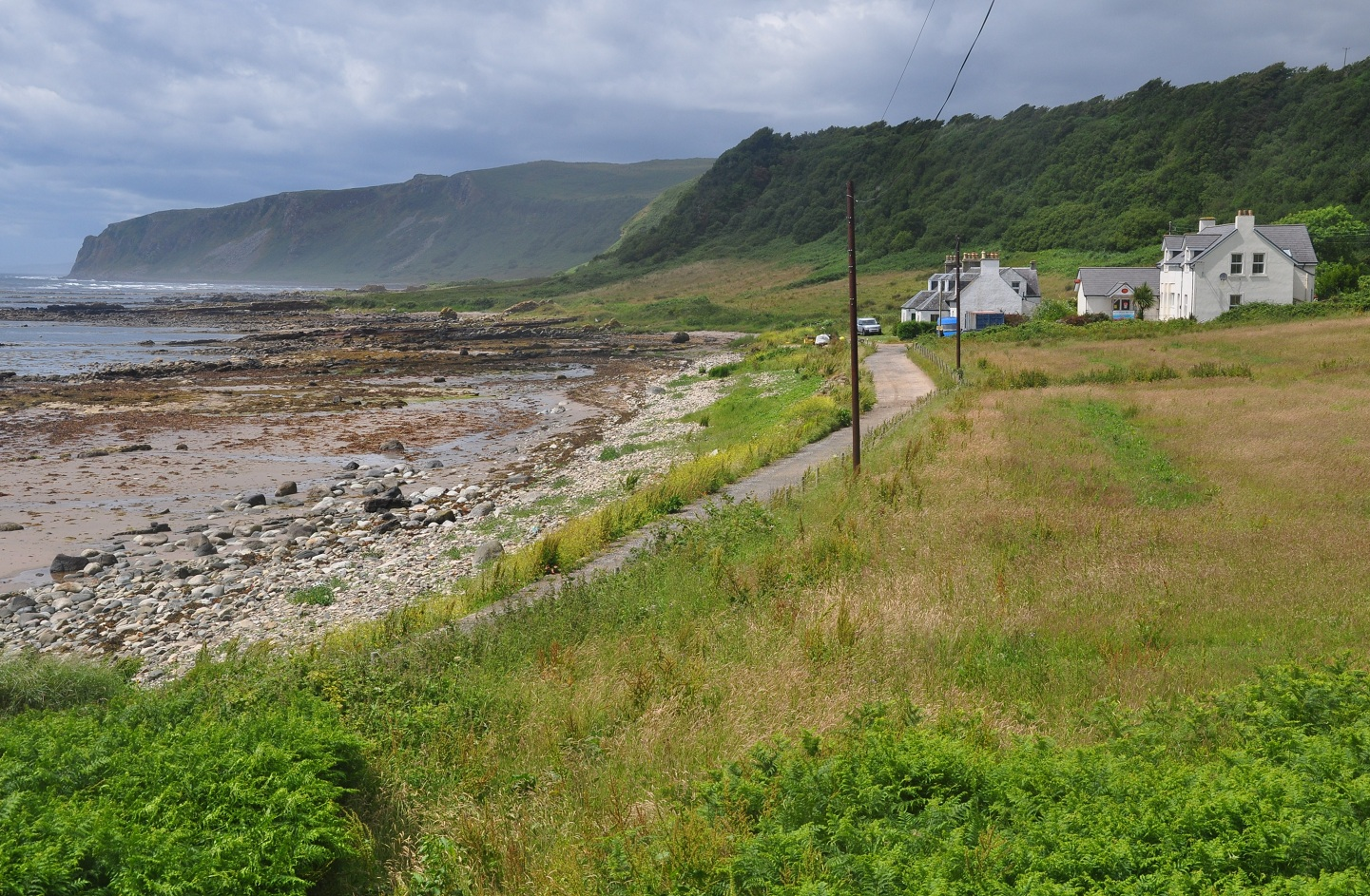 The western end of the village of Kildonan on the Isle of Arran, North Ayrshire, Scotland. The building with the tiny red sign is the Post Office. On the left is Bennan Head, the southernmost point of Arran.